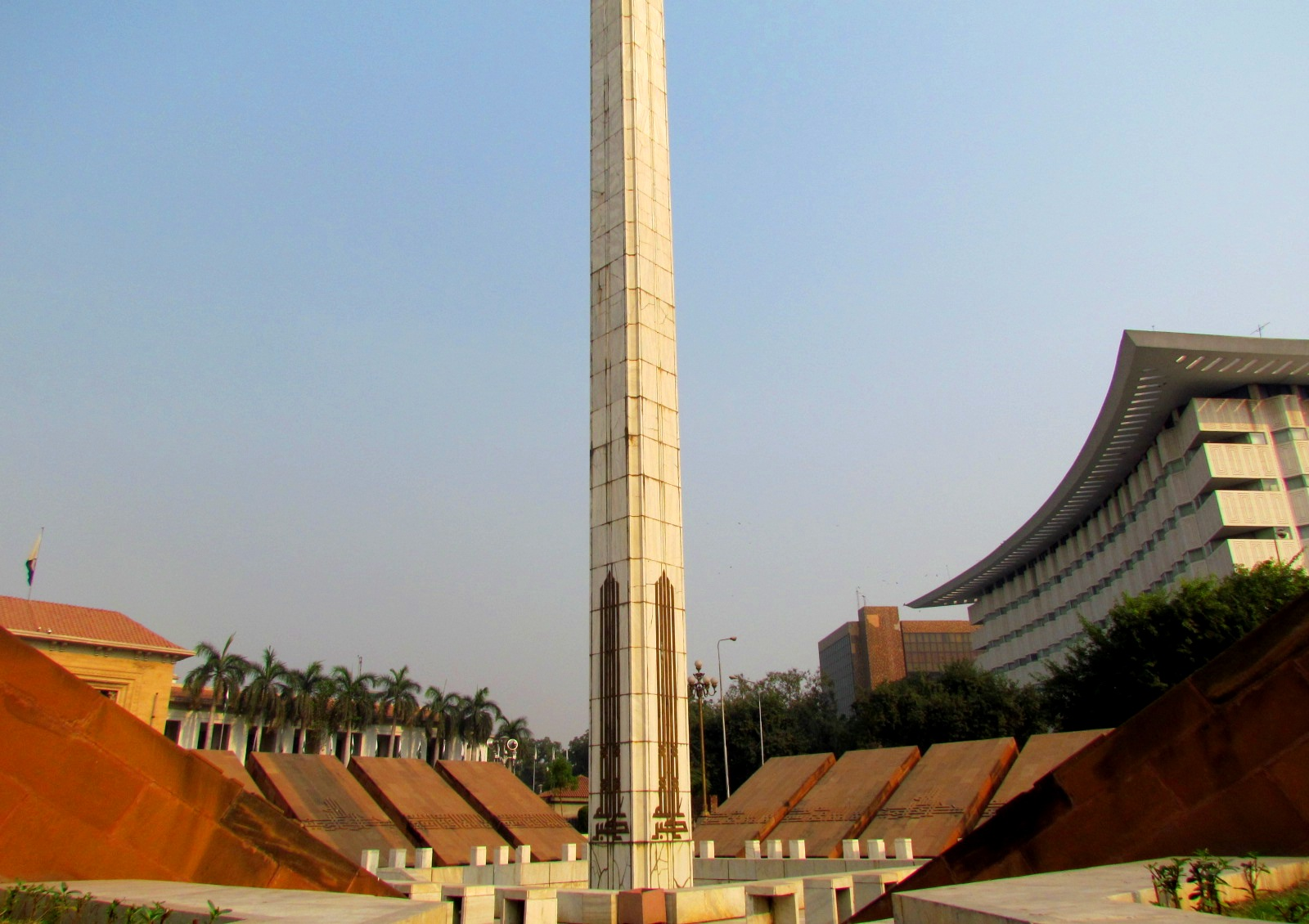 The Islamic Summit Minar was built in 1974 in commemoration of the OIC meeting that was held in Lahore in the same year. Its located right behind Charing Cross another prominent landmark of Lahore This is a photo of a monument in Pakistan identified as the PB-93